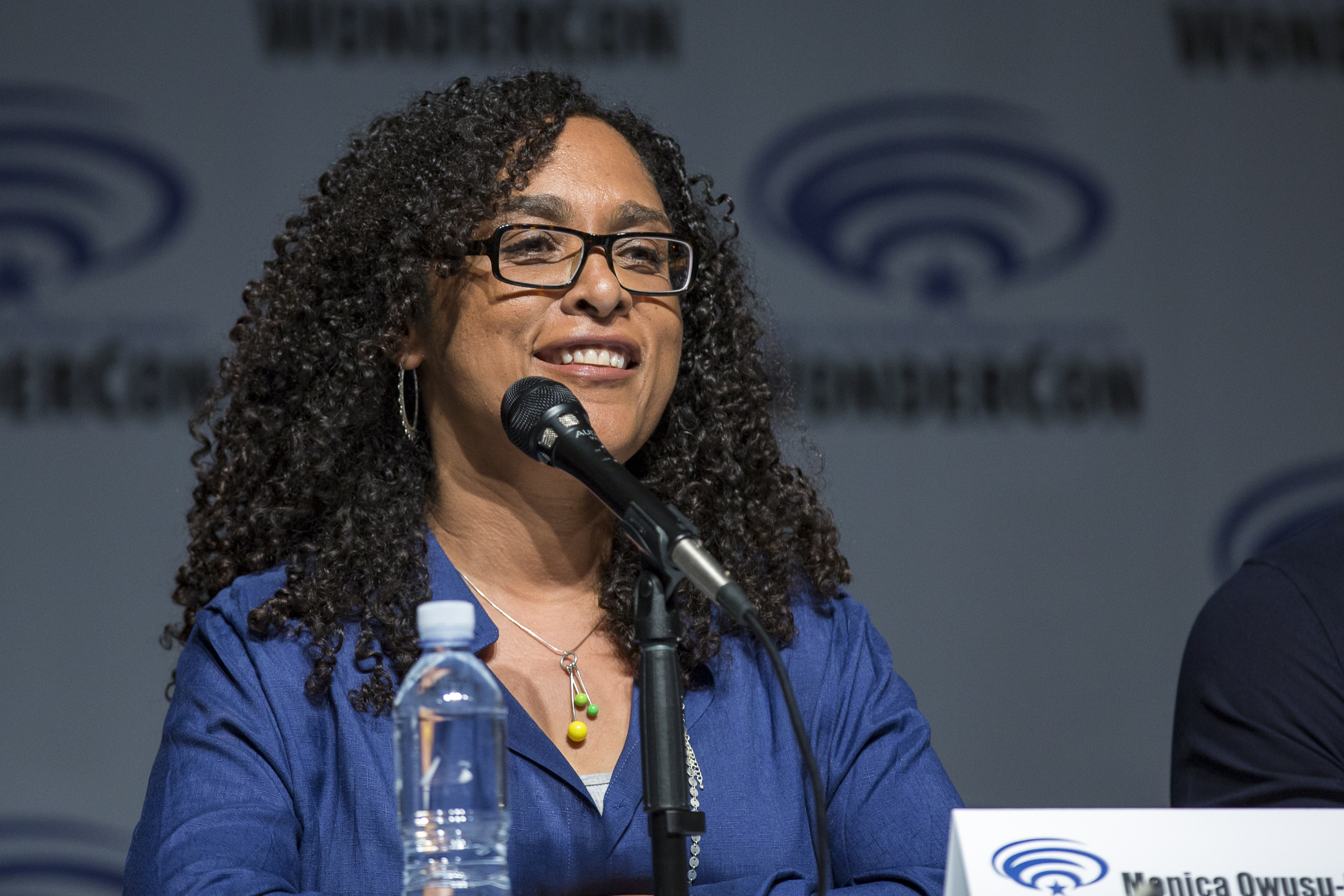 Television producer Monica Owusu-Breen at the Midnight, Texas panel at WonderCon 2017 in Anaheim, California.